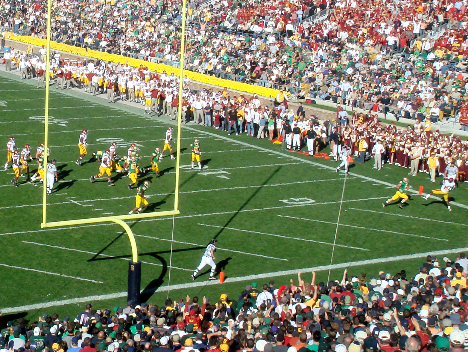 Notre Dame Stadium: The USC Trojans's Fred Davis catches a one-handed touchdown against the Notre Dame Fighting Irish in the 79th edition of the inter-sectional rivalry series. USC would win 38-0.